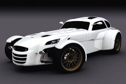 Donkervoort D8 GT Only 50 cars a year are to be built, priced from £60,000!